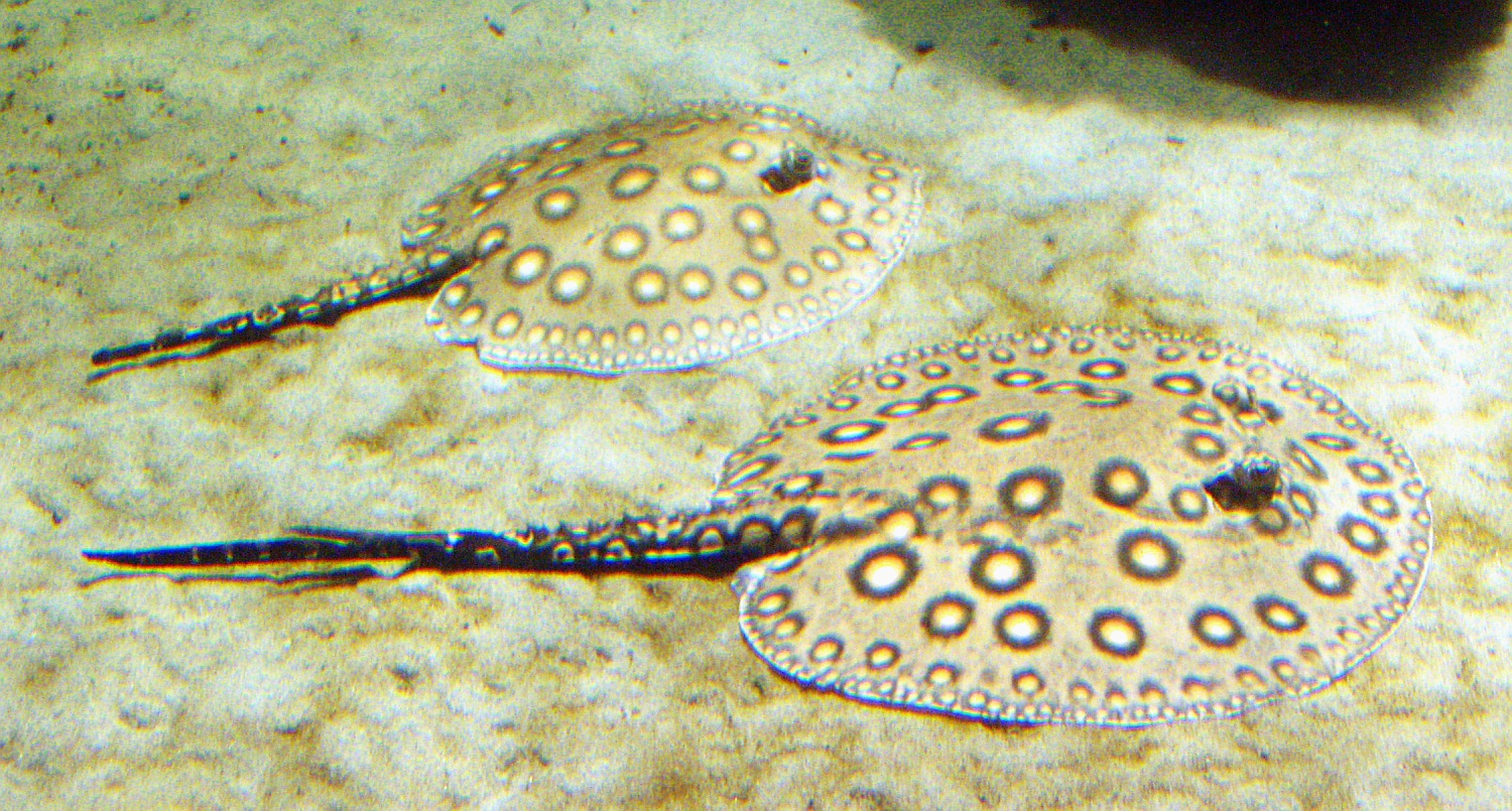 Ocellate river stingray (Potamotrygon motoro) at Zoo Duisburg, Germany